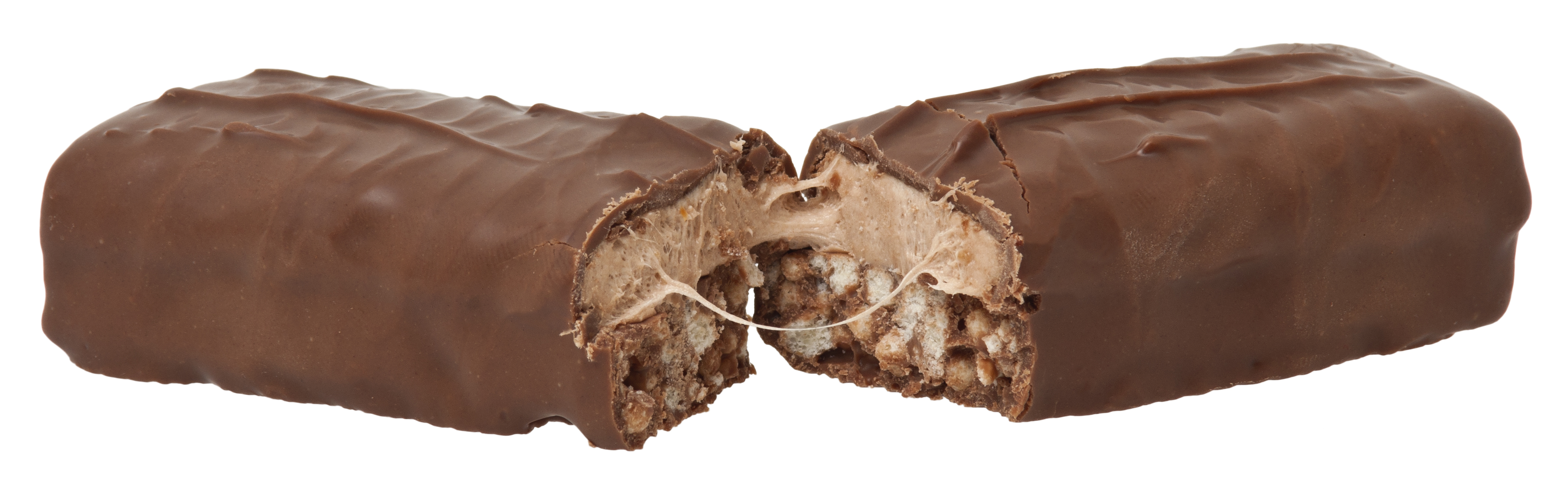 A Cadbury Double Decker candy bar that has been split in half.